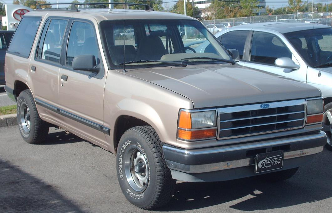 1991-1994 Ford Explorer photographed in Montreal, Quebec, Canada.